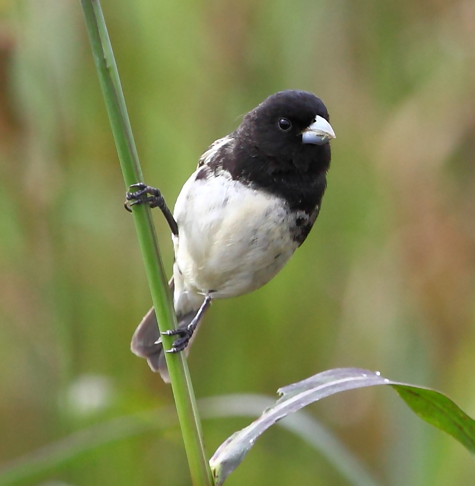 Dubois's Seedeater (male) at Sacramento - MG - Brazil